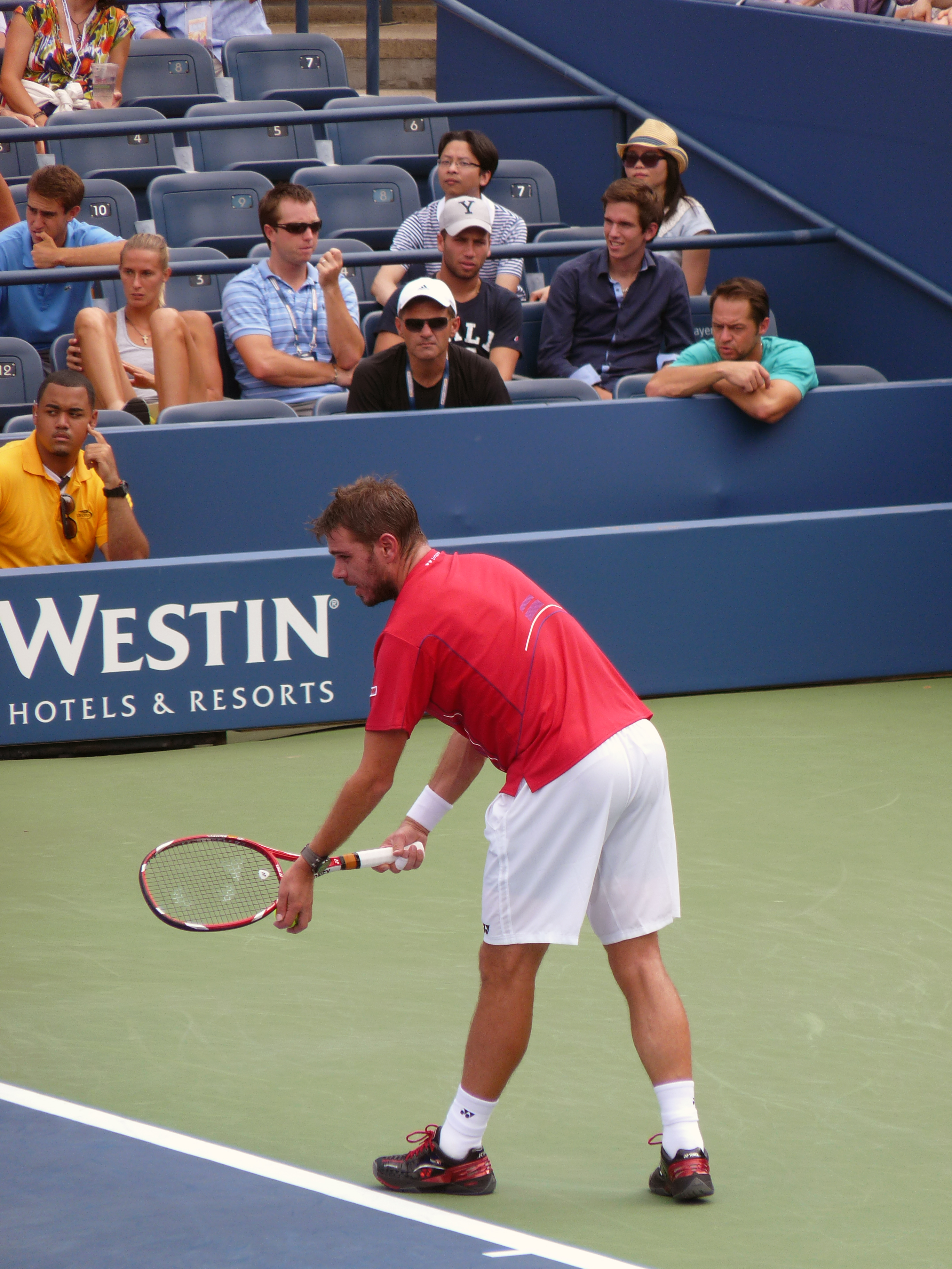 US Open 2013 – Men's Singles 3rd Round (Louis Armstrong Stadium) – Stanislas Wawrinka [9] vs. Cyprus Marcos Baghdatis: 6–3, 6–2, 61–7, 7–67